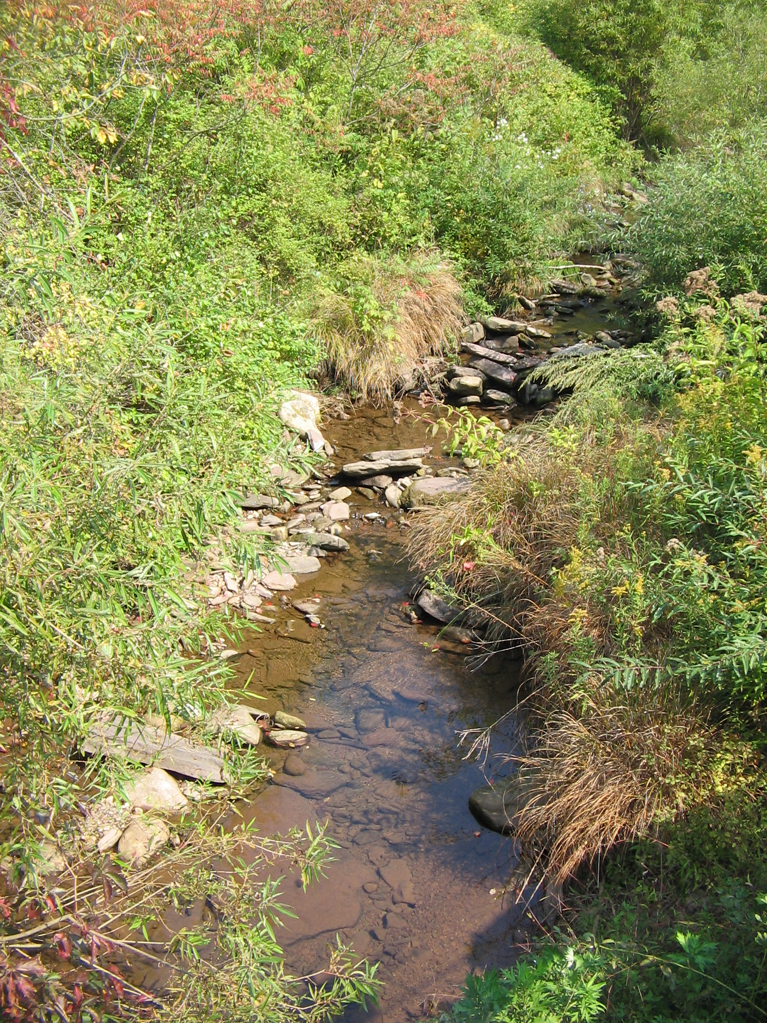 Plunketts Creek, in Plunketts Creek Township, Pennsylvania, United States, looking upstream from bridge in Hoppestown